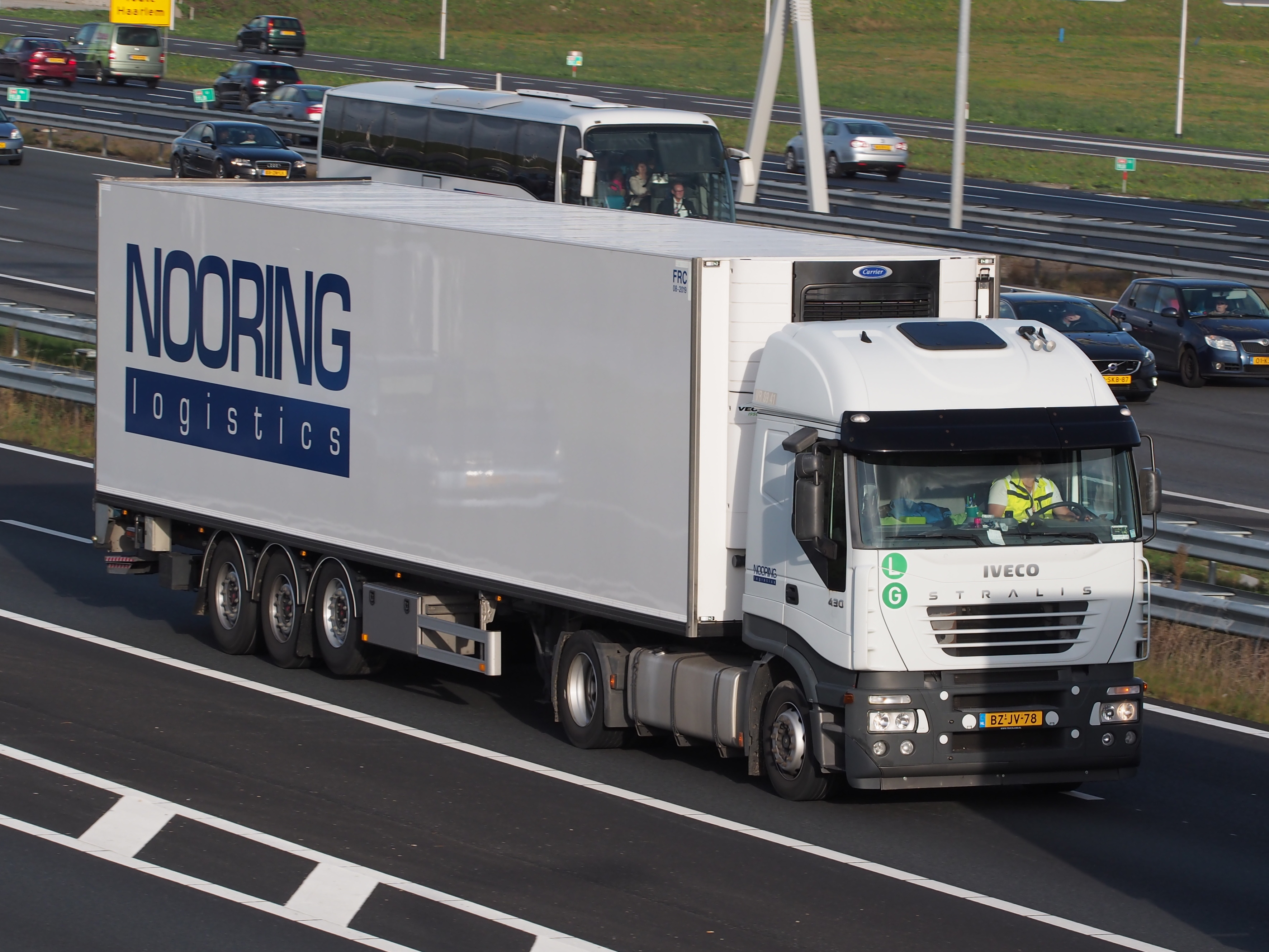 Photographed in Port of Amsterdam, The Netherlands.